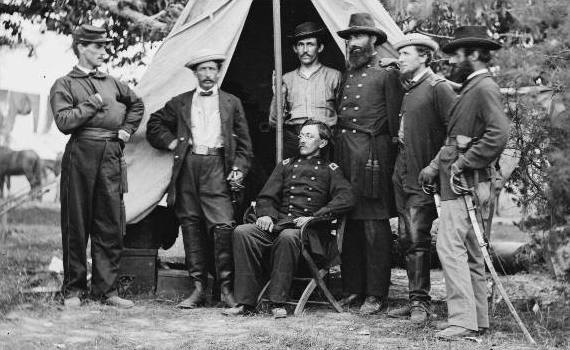 George Henry Chapman (1832-1882)